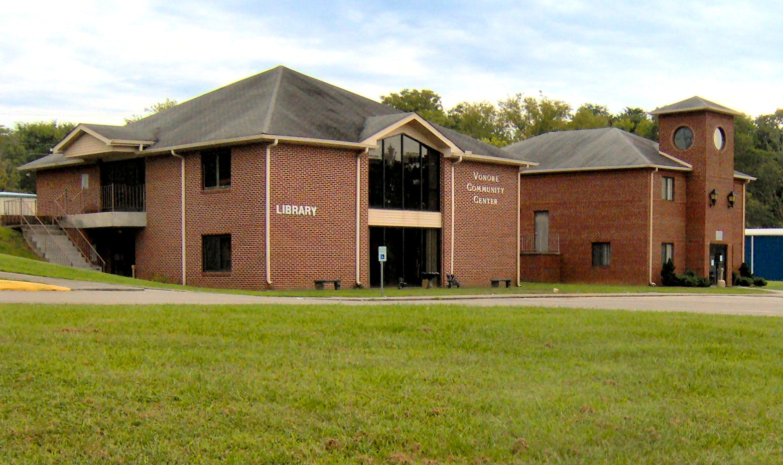 The library and community center (left) and city hall (right) in Vonore, Tennessee, USA.